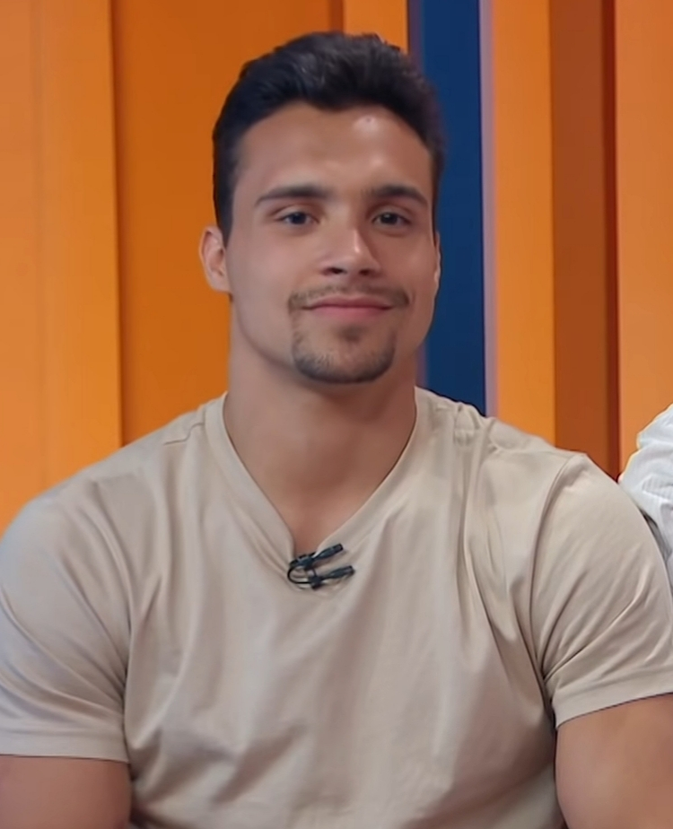 Petrix in 2020